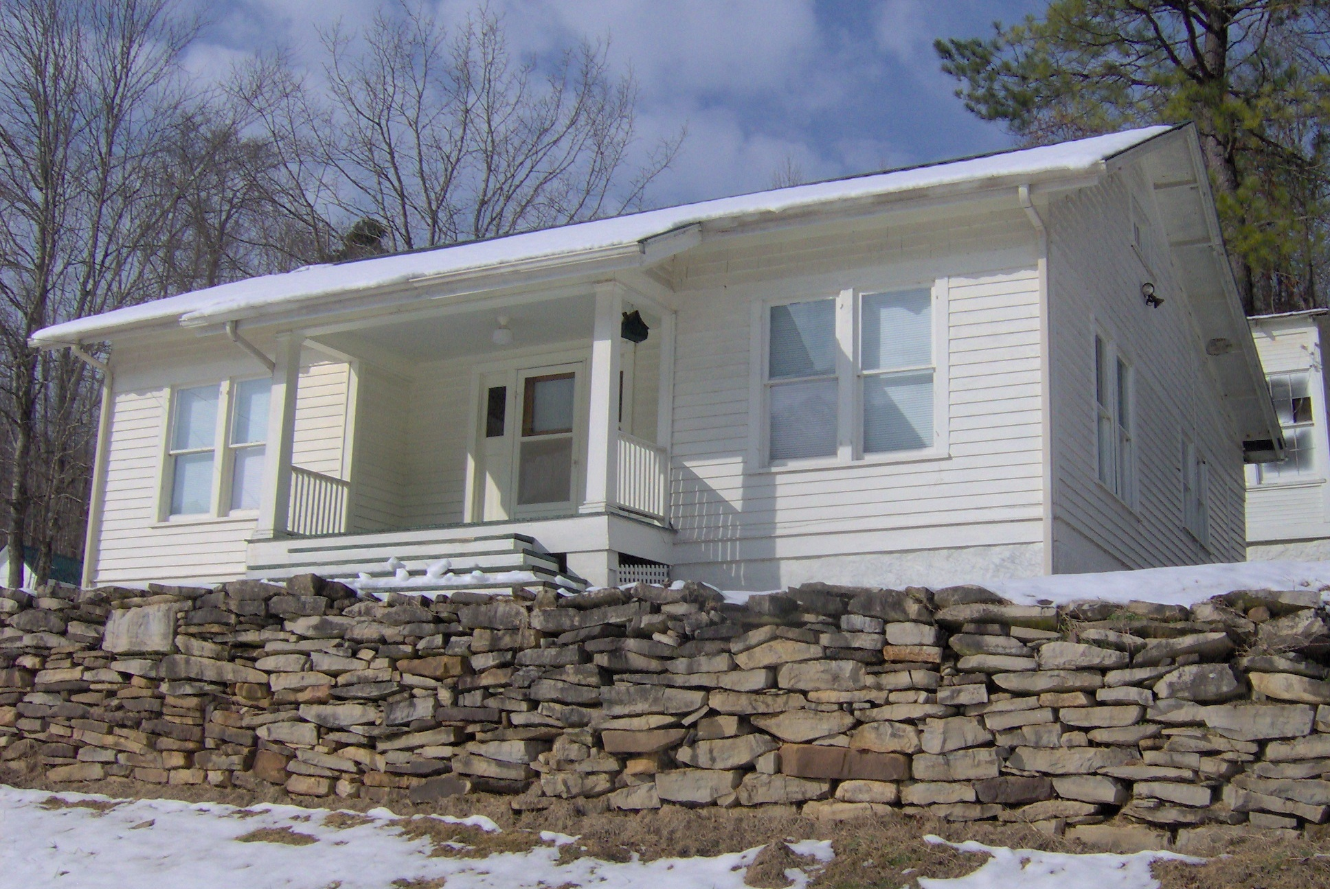 The Chester F. Leonard Manse, part of the Vardy School Community Historic District in the Vardy Blackwater community (Newmans Ridge area) of Hancock County, Tennessee, USA. Part of the Vardy School's library is visible behind the manse. Special thanks to John Stansberry for helping me find this, and to local resident David Collins for showing us around.